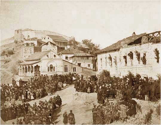 Promulgation of Manifesto of Emancipation the Peasant. Signakhi, Kakheti. 1864